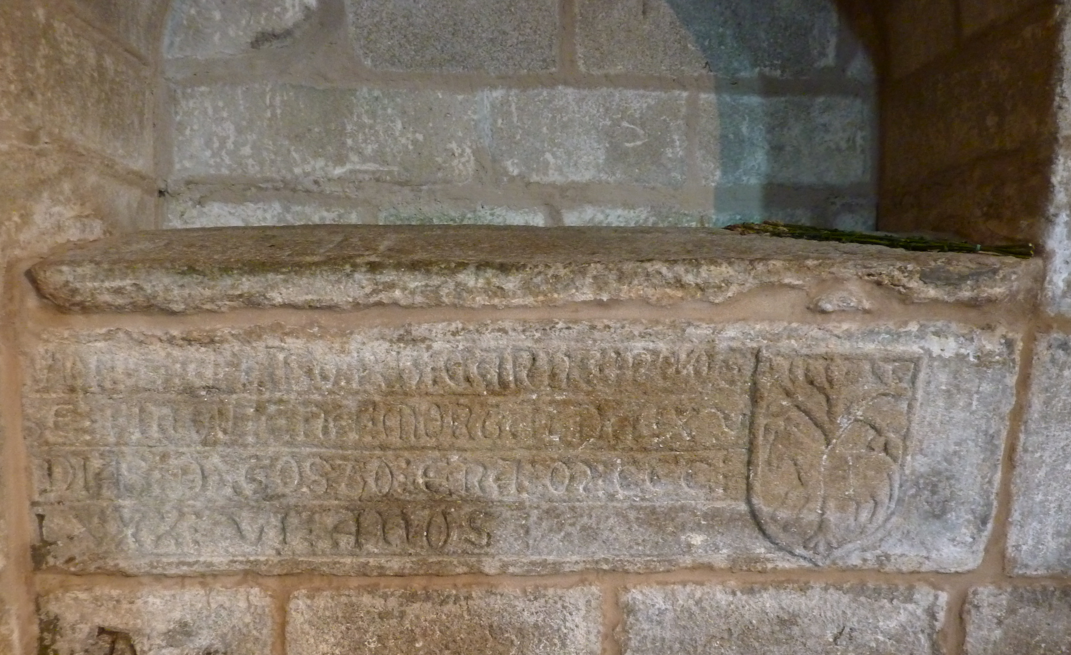 Sepulchre of Alvaro Paz Carneiro, in Noia, Galicia. The inscription, in Galician, can be translated as 'Here lies Alvaro Paz Carneiro, who died in the Mortality. 1348, August 15th.' The Mortality is the Black Death.